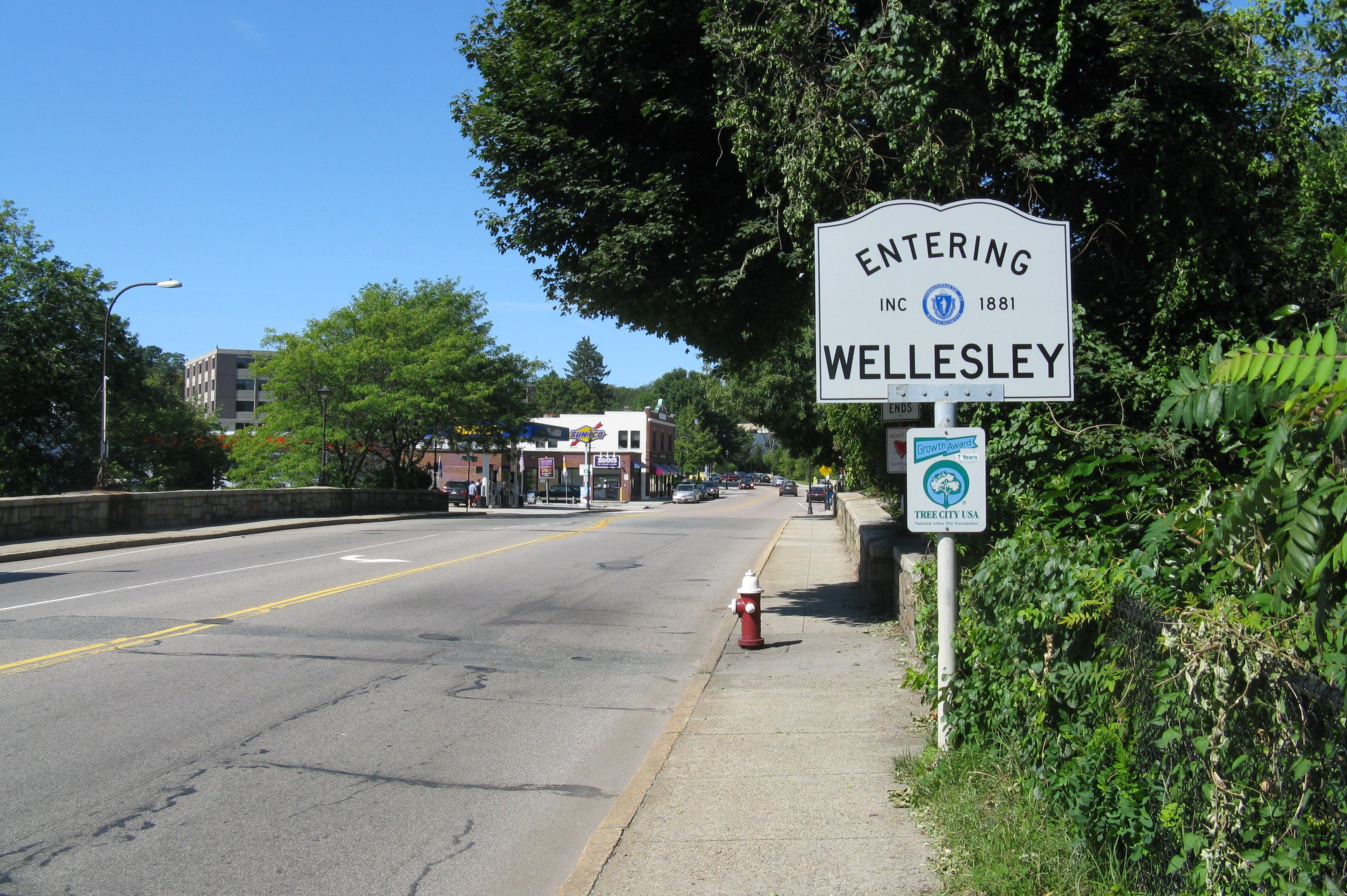 Entering Wellesley eastbound on MA Route 16, Wellesley Massachusetts